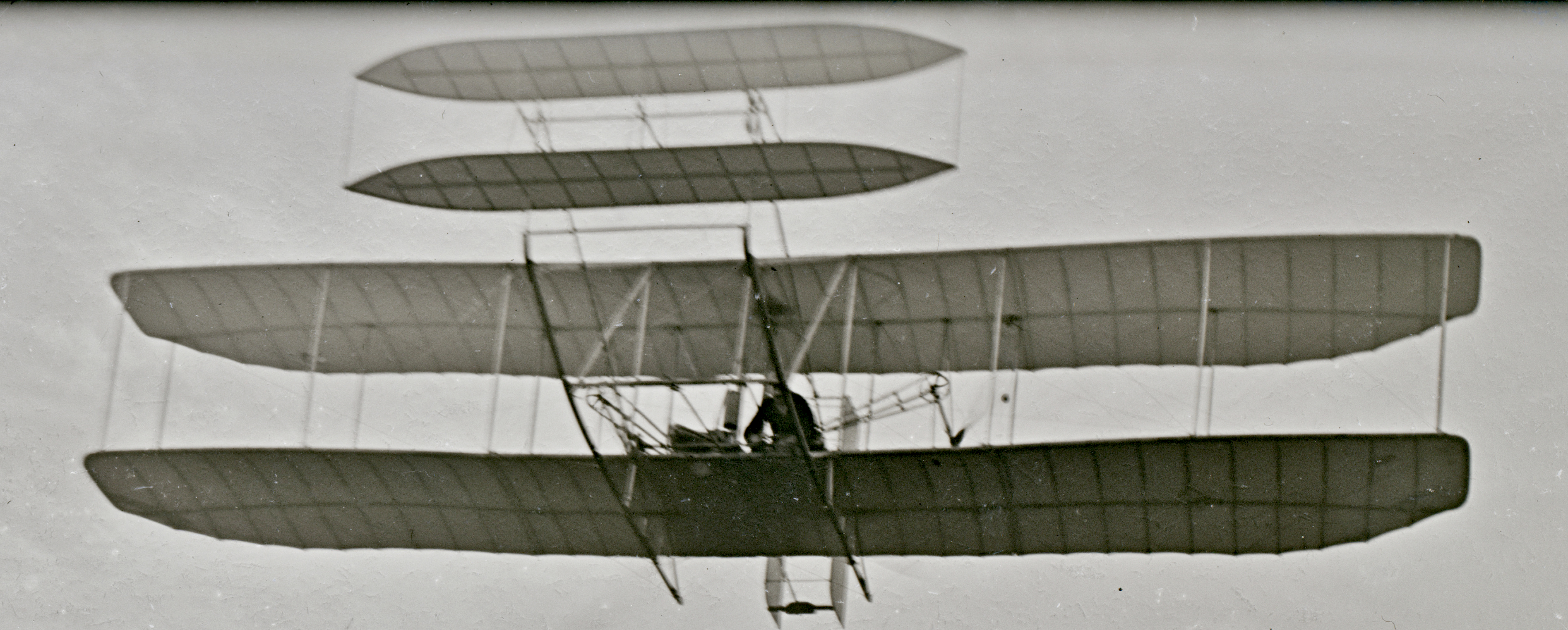 Front in-flight view of Wright Flyer III during its 46th flight (which was the last photographed flight of 1905); Huffman Prairie, Dayton, Ohio, October 4, 1905.